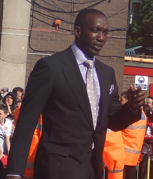 Dwight Yorke